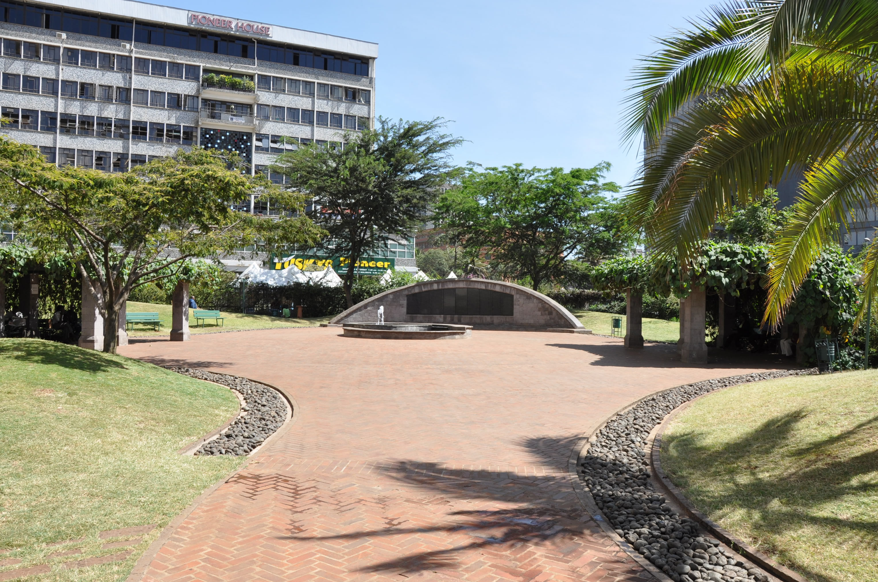 On August 7th 1998, a group of terrorists used a car bomb to blow up the then United States Embassy located at the corner of Moi and Haile Selassie Avenues, causing the deaths of 218 innocent people and injuring thousands of others. Many of the victims were left with blinding injuries, others were left with only partial sight, caused by the millions of shards of glass that flew from the Embassy and surrounding buildings. So powerful was the explosion that it could be heard as far away as Tigoni and Jomo Kenyatta International Airport, while the shock wave was felt all over the city causing many buildings to tremble. As a result, a new Embassy was constructed on a heavily fortified site at Gigiri while ownership of the existing site was donated by the American and Kenyan people to a Trust charged with turning it into a memorial park as a tribute to the victims but also a place where the public would be educated about the futility of violence and the essence of peace. The construction of the park was made possible by donations in cash and kind by a number of individuals, companies and organizations, leading to its opening on 7th August 2001. The Memorial Park comprises a landscaped garden, a wall commemorating the names of those who died, a scultpture made from the debris of the blast and a Visitors Centre, the latter financed by a donation from USAID. The Visitors Centre stands at the site of Ufundi House, a building that used to stand next to the Embassy, and which took the full force of the blast. It was completed in the year 2004